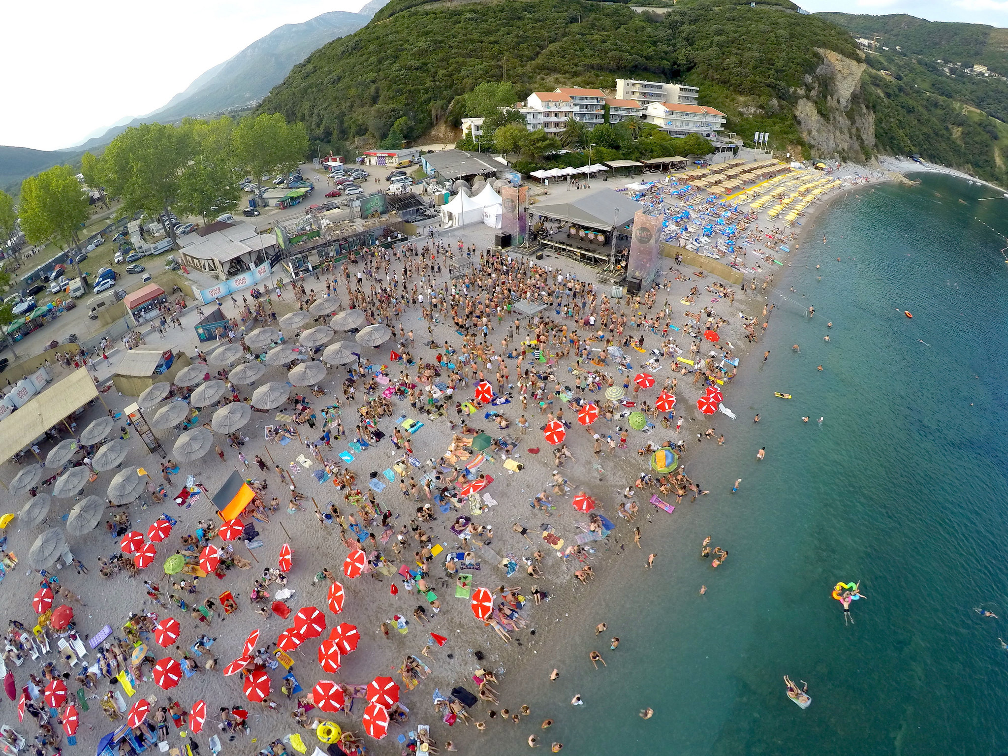 Sea Dance Festival, 2015.